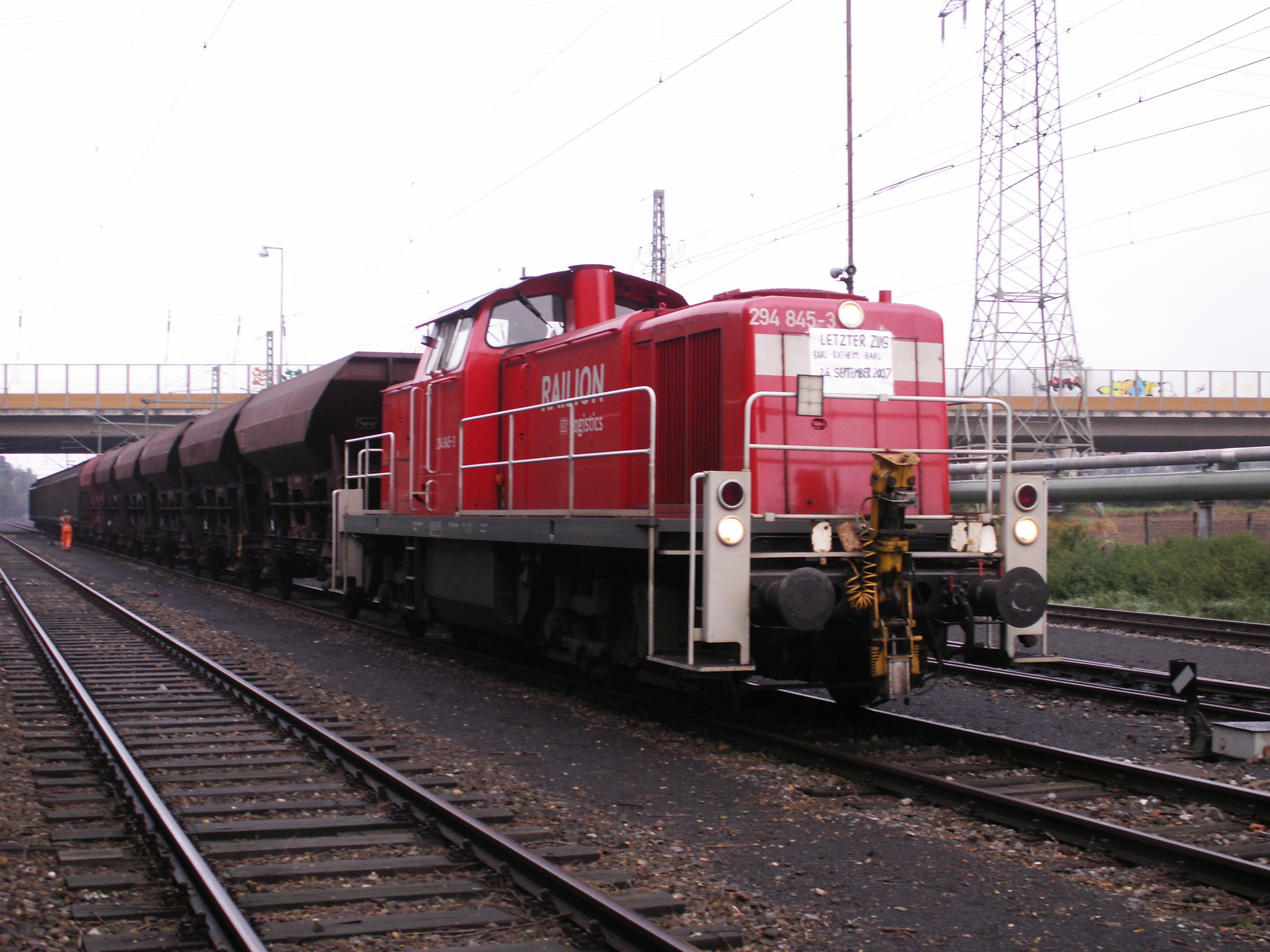 last Train to Ratheim...